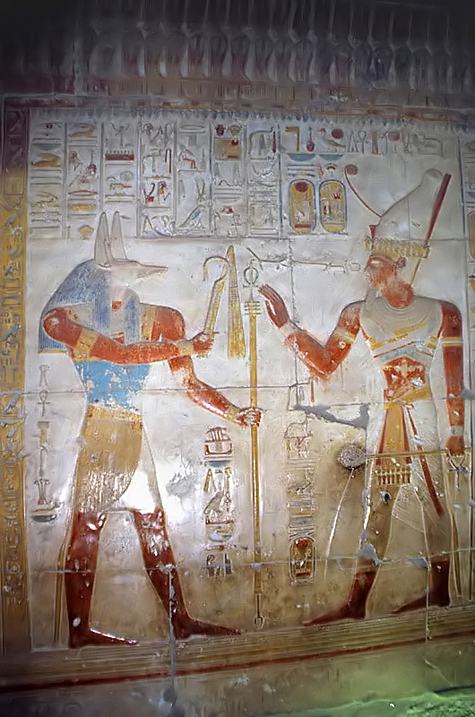 Smaller chapel of Seti I, Wepwawet offers insignia to the king, Temple of Seti I, Abydos, Egypt